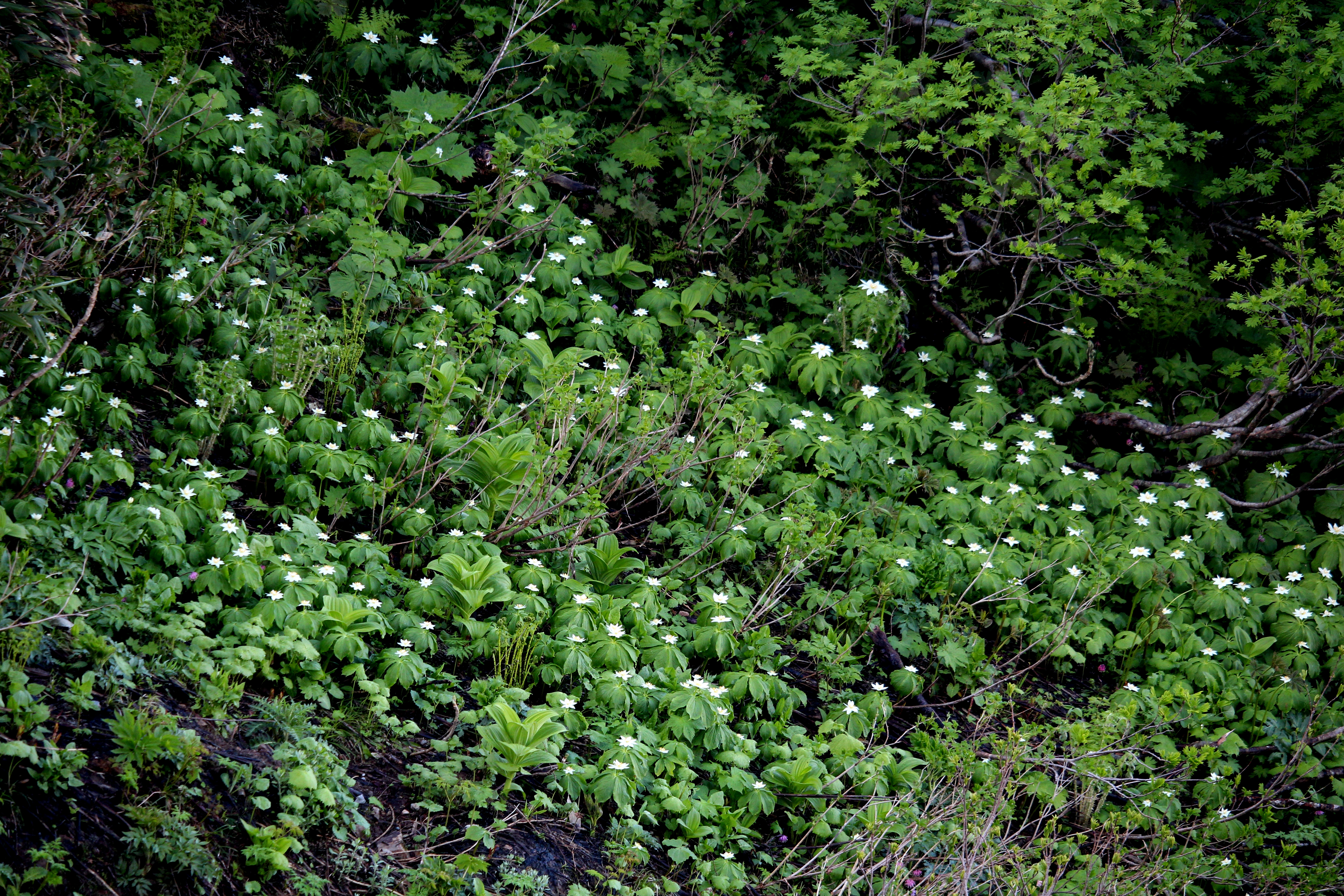 Kinugasa japonica (Paris japonica), in Mount Haku, Hakusan, Ishikawa prefecture, Japan.